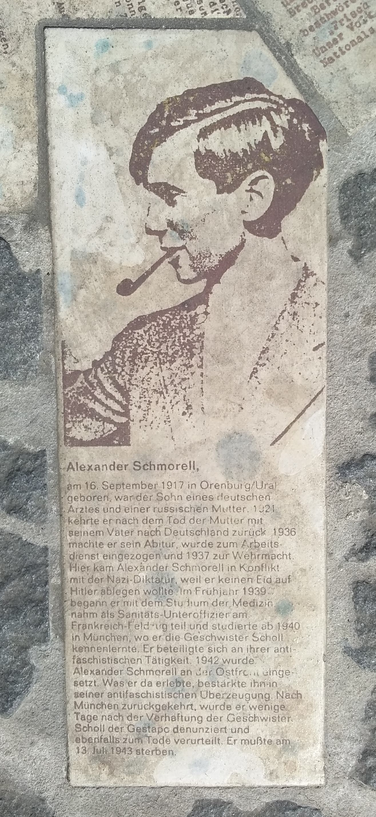 Part of sidewalk monument near Munich University, depicting White Rose member Alexander Schmorell